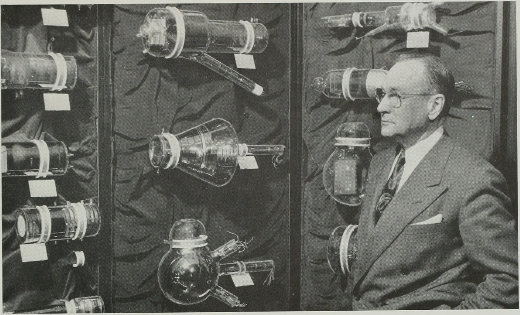 Russian-American electrical engineer and inventor Vladimir K. Zworykin standing in front of a display of some of the historic television tubes he invented. Working at Westinghouse and RCA laboratories from 1923 through the 1940s, Zworykin invented the first successful electronic-scan television systems, including the widely used iconoscope camera tube. Caption: "Dr. Vladimir K. Zworykin, with historic TV tubes he has helped to develop."